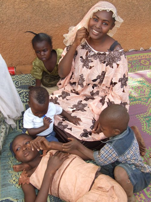 Woman with children during Muslim baptism in Niamey, Niger, Africa.